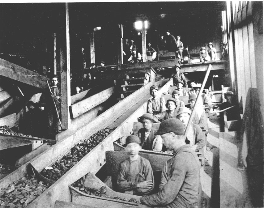 North Ashland colliery. Breaker boys at work (silver gelatin photoprint)